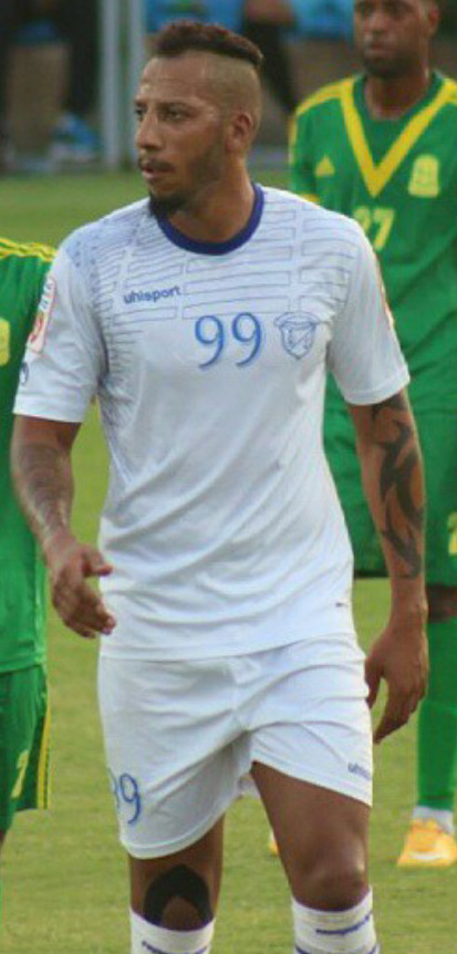 Tiago Chulapa in a match against Al Seeb Club 19 April 2015 Al Seeb Stadium Photographer email id